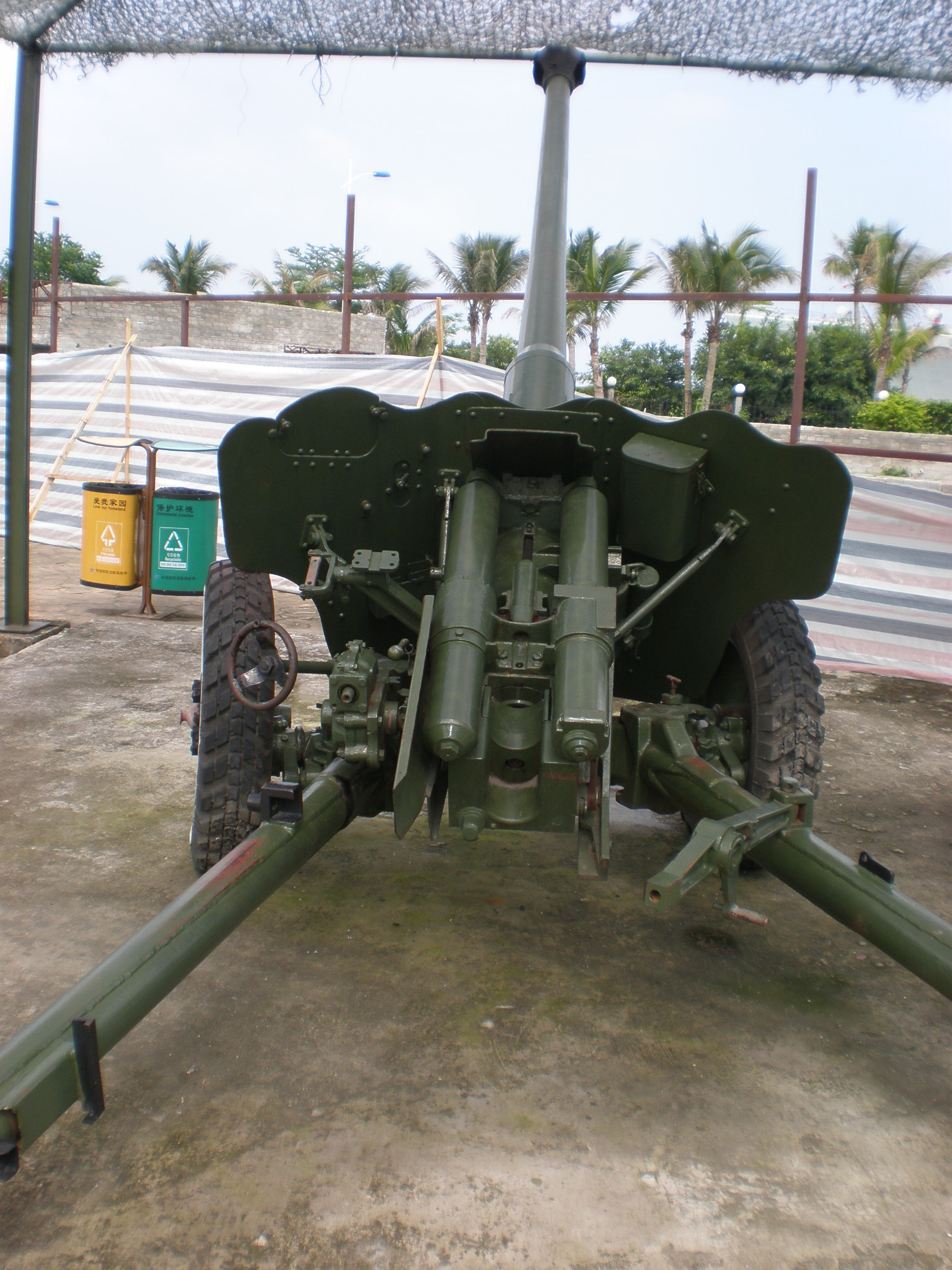 A Type 56 85 mm gun, a Chinese variant of the Soviet 85 mm divisional gun D-44, on display at the Minsk World military theme park in Shenzhen, China. The former Soviet aircraft carrier Minsk is the centerpiece of Minsk World.